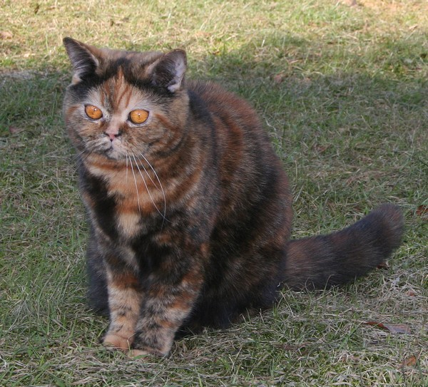 En sort tortie British shorhair kat